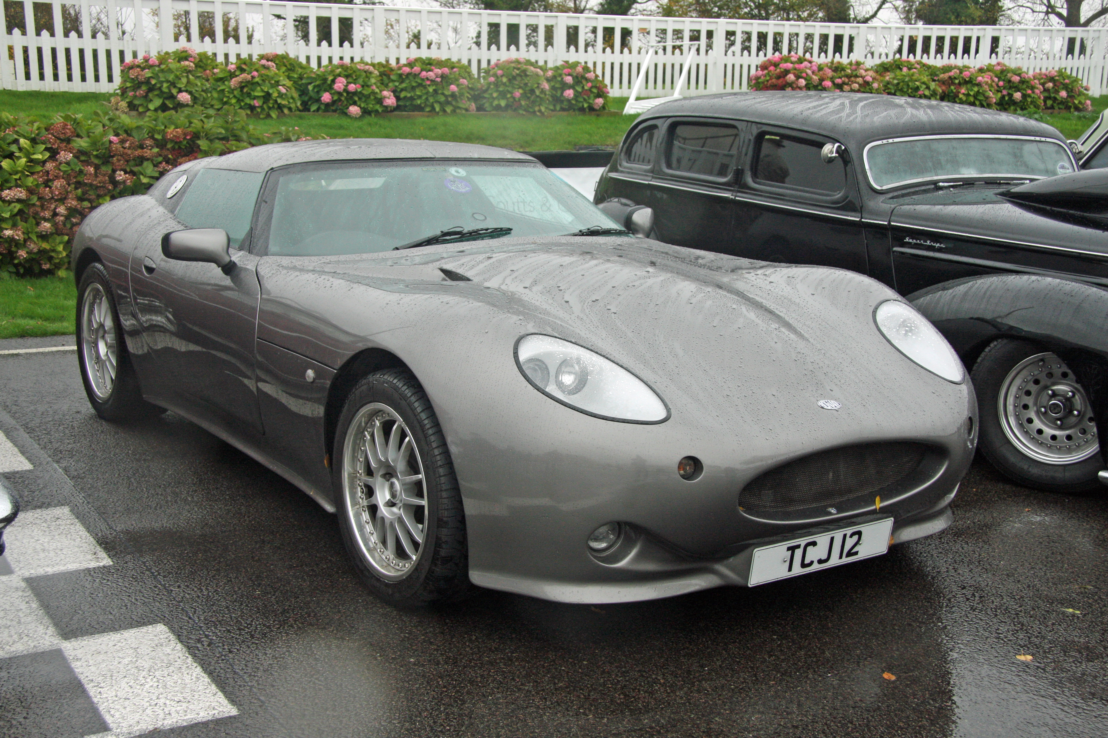 Ronart Lightning